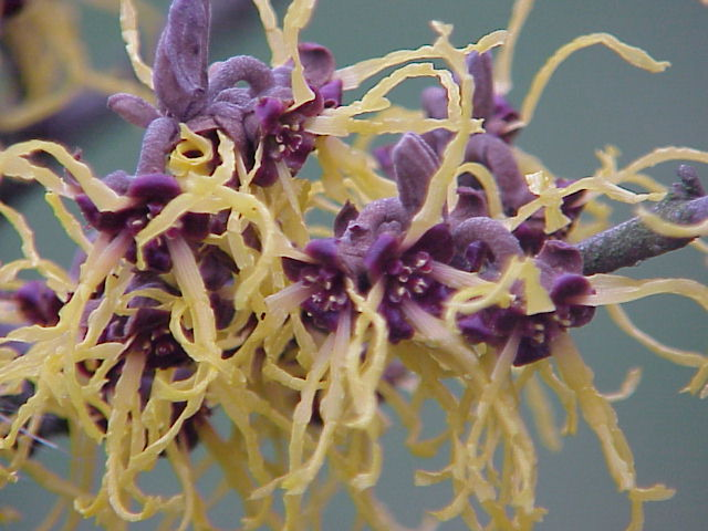 Species: Hamamelis japonica Family: Hamamelidaceae Image No. 1